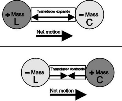 This simple diagram illustrates how thrust is produced by the Woodward effect.